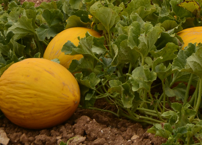 Ontinyent's Gold Melon at the field